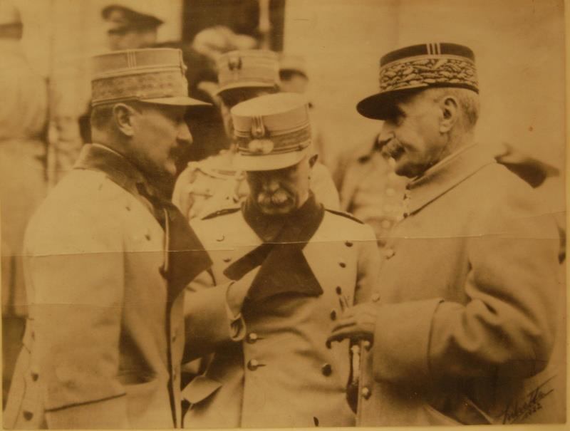 General Iacob Zadik discussing with General Marshal Ferdinand Foch of France.